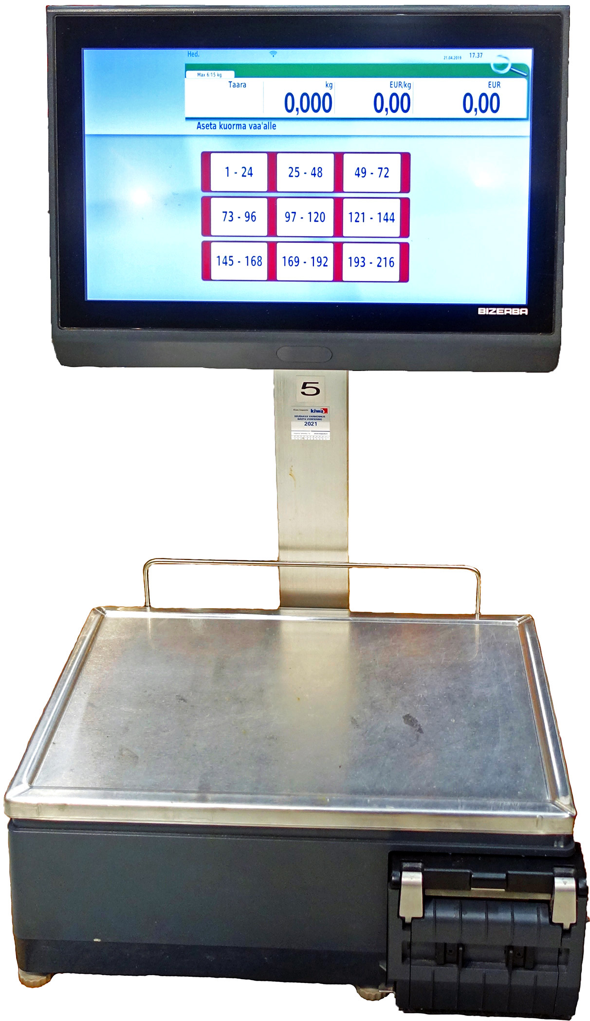 A weighing scale for fruits and vegetables in Prisma supermarket Keljo, Jyväskylä. For customer's use.